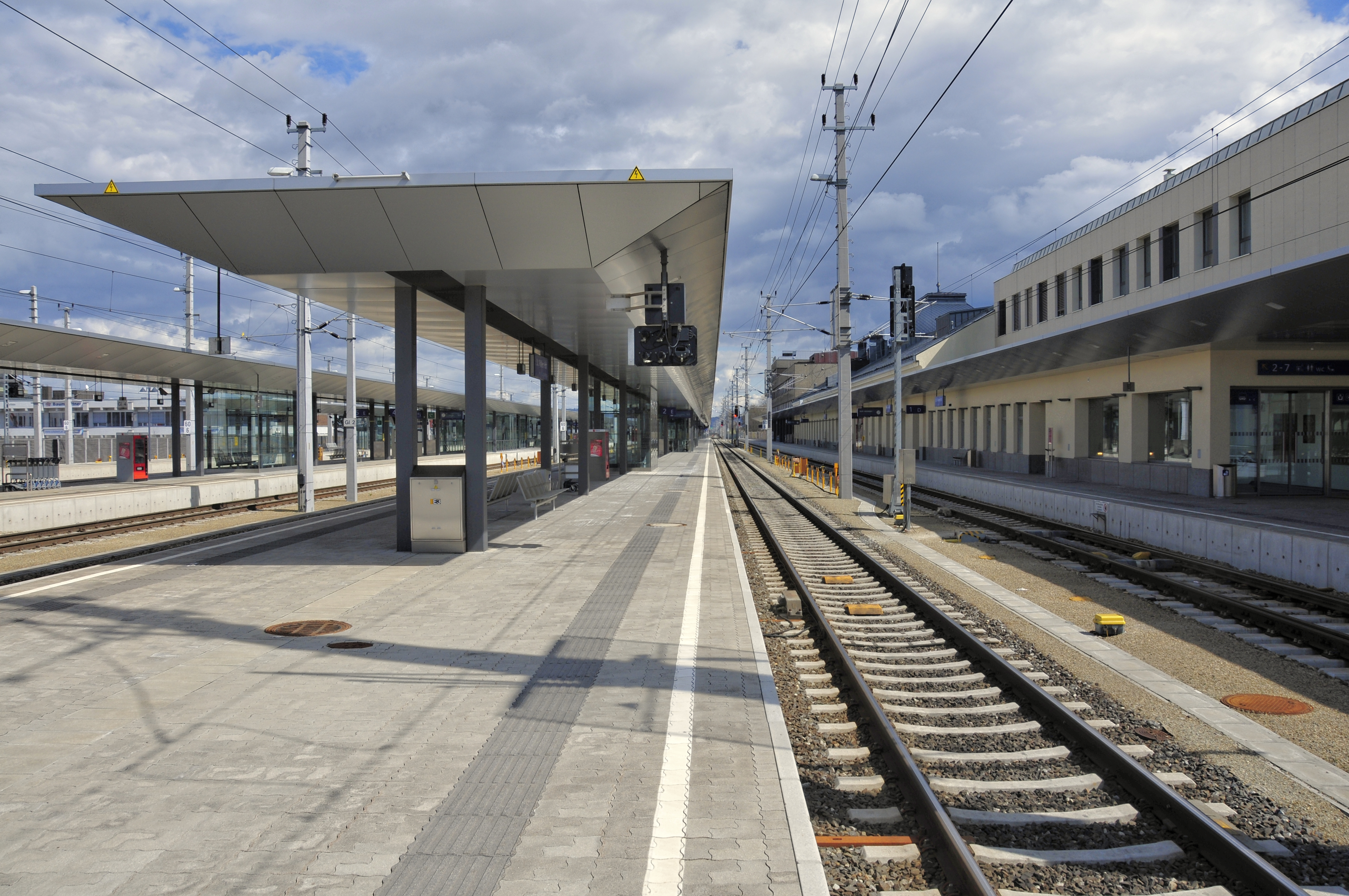 St. Pölten, Austria, Main Train Station Fotowanderung St. Pölten 13. April 2013 in St. Pölten, Niederösterreich 50mm • Allgemeines • Bahnhof • Domplatz • Fahrräder • Landhausviertel • Rathausplatz